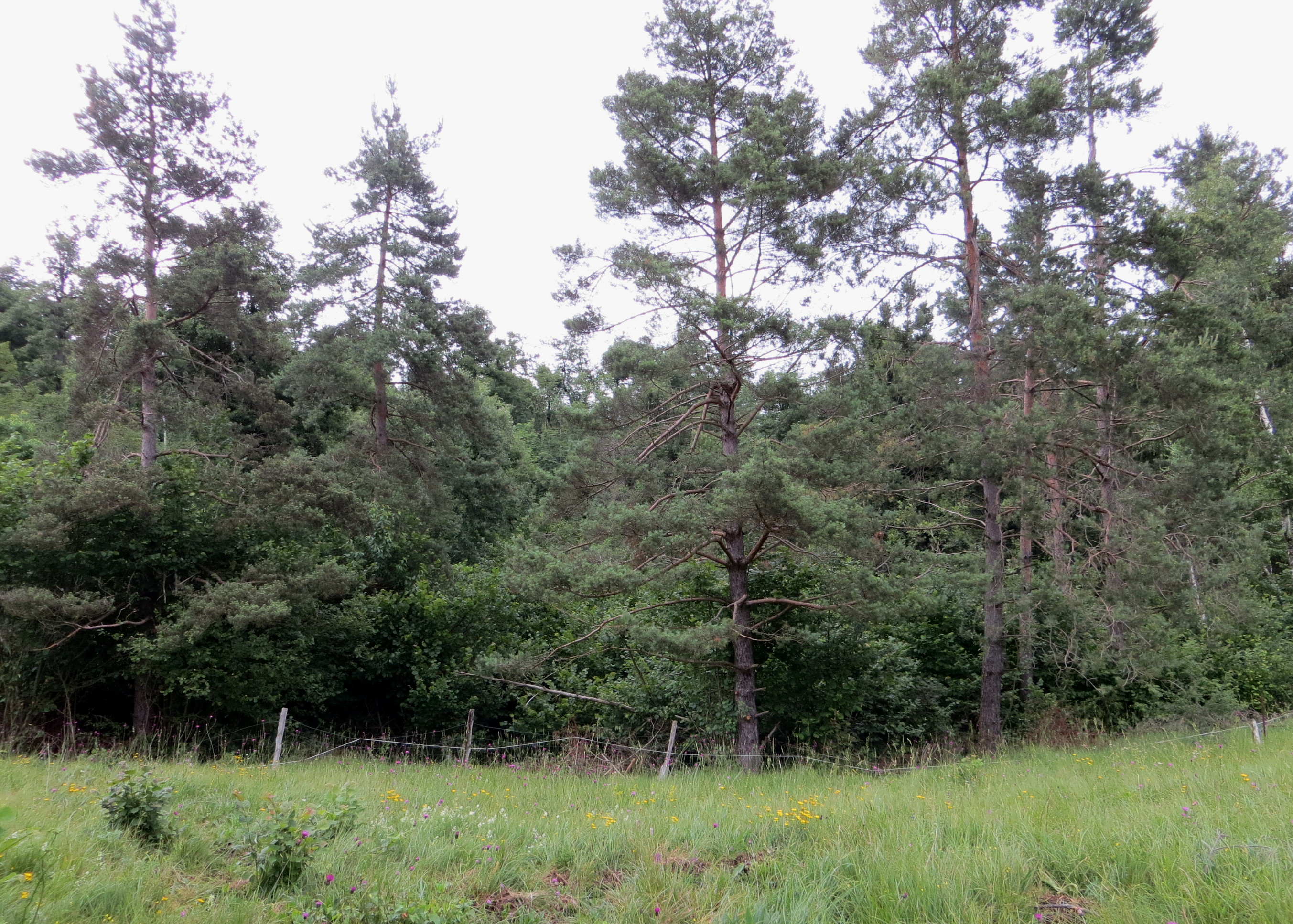 The Martinove Hrastnice Shaft Mass Grave in Bukovje, Municipality of Postojna, Slovenia